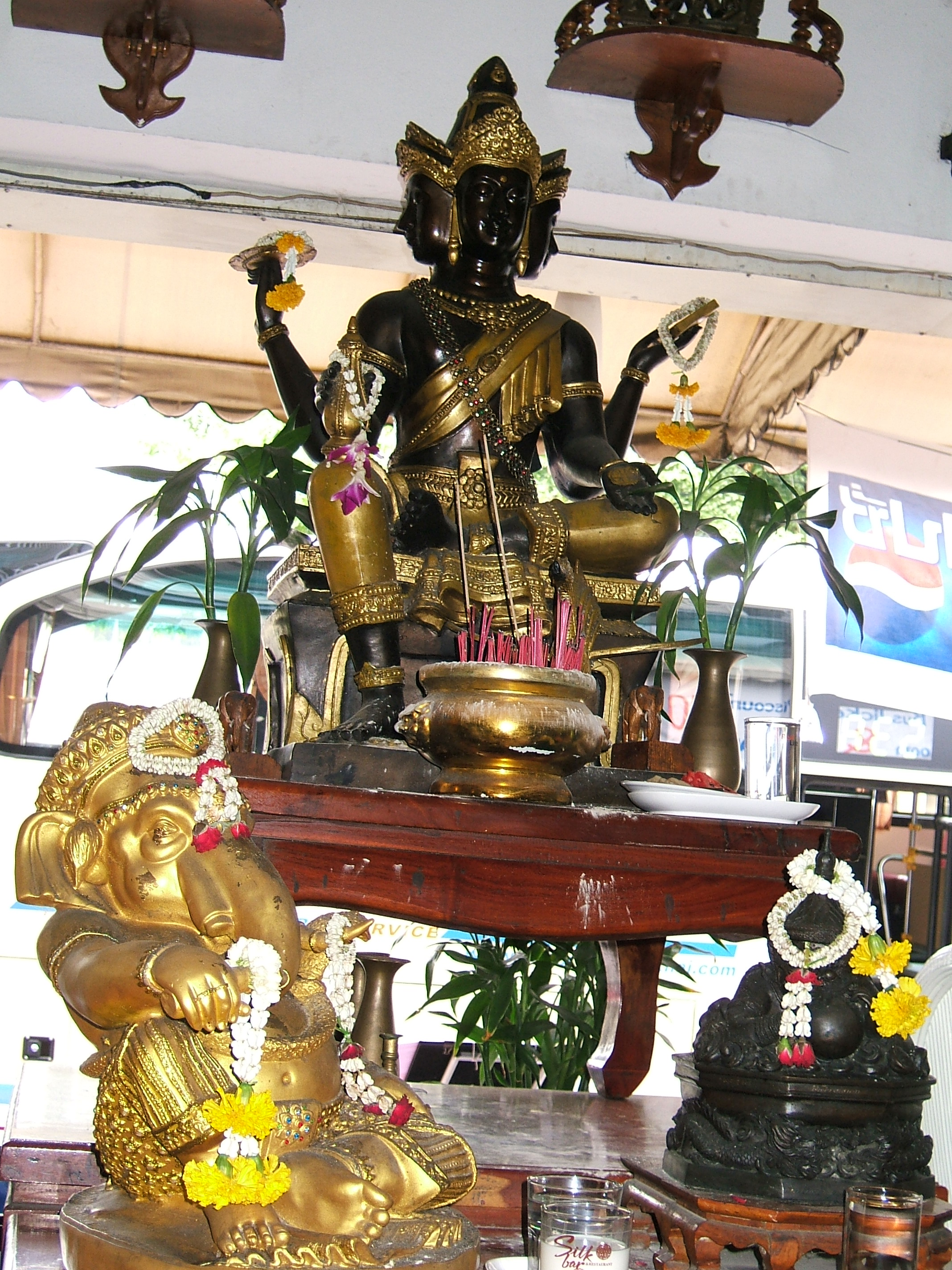 Brahma from Hinduism trinity, one with knowledge of vedas and the creator of universe in Bangkok, Thailand